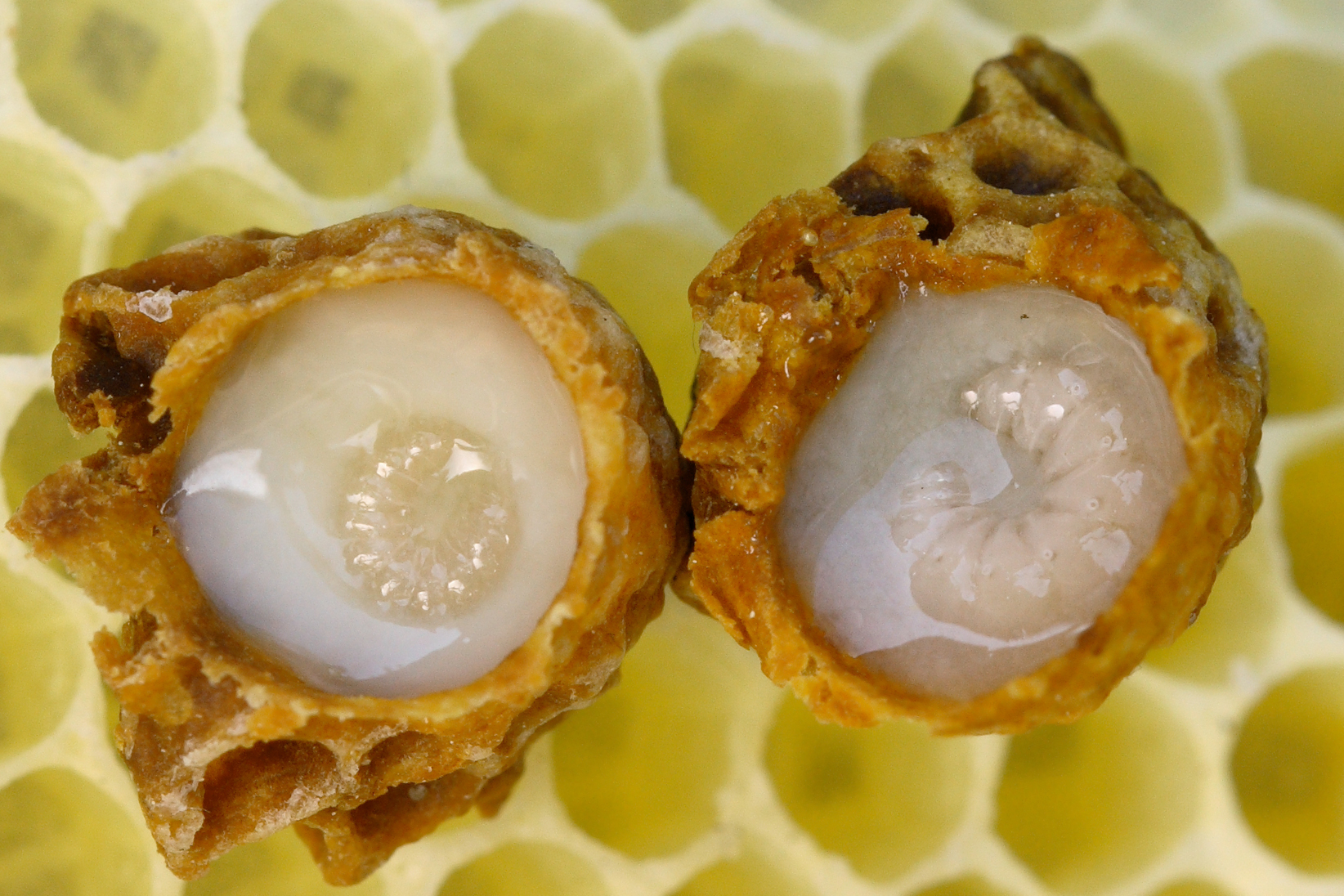 Two queen cells were opened to show queen larvae of the Western honey bee floating in royal jelly.